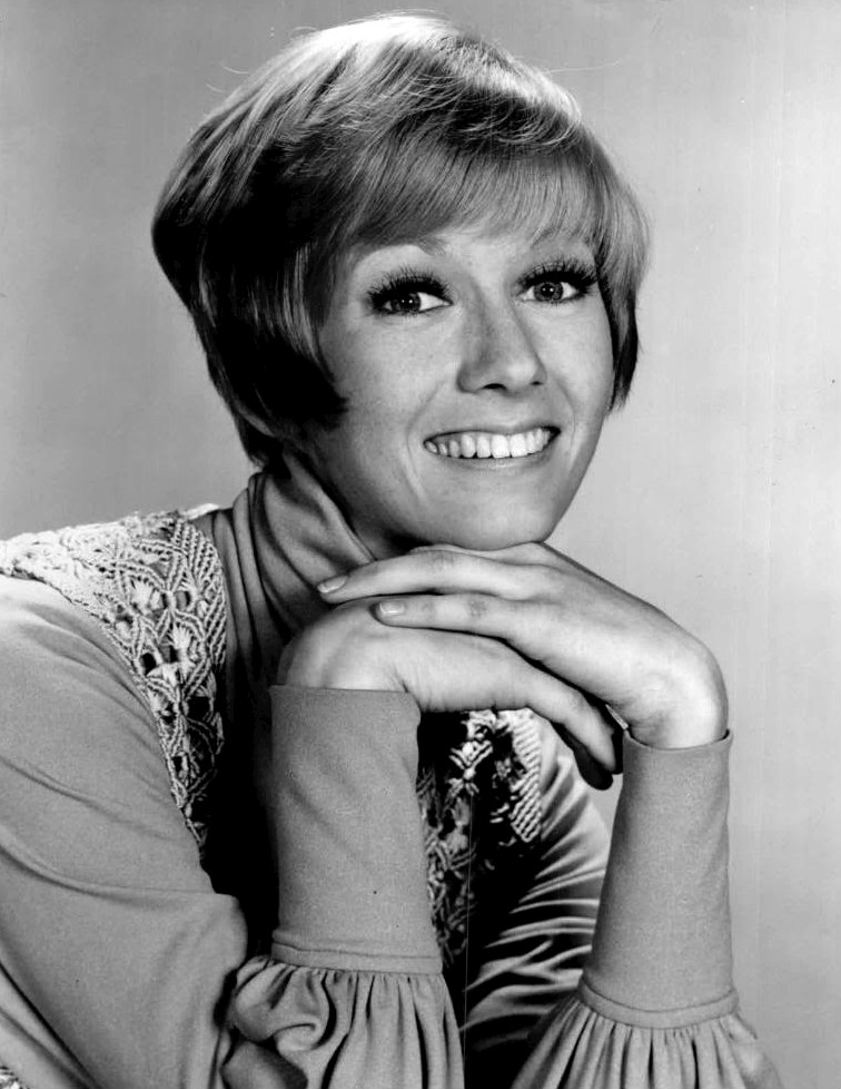 Photo of Sandy Duncan.